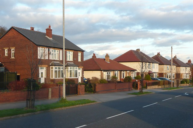 Ribbon development, Soothill Lane, Soothill. Much of this road and also of Leeds Road are lined by houses, mainly semi-detached, with fields behind. These were built before 'green belts' were invented.